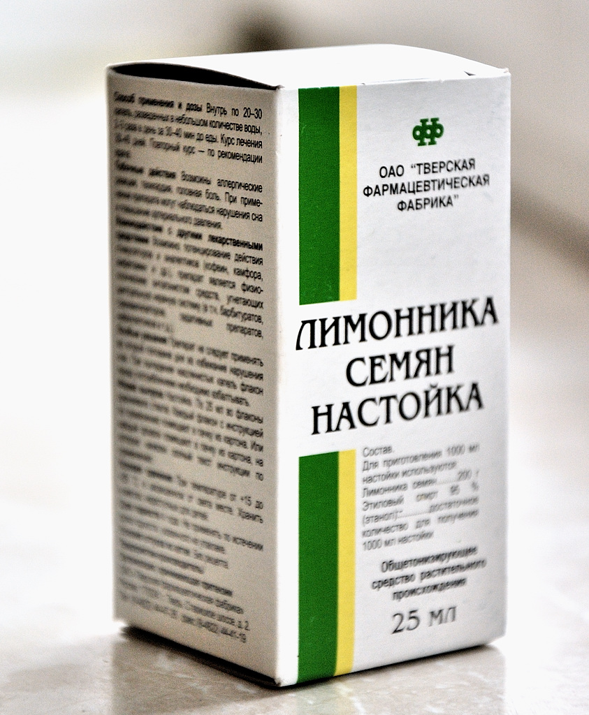 Schisandra chinensis fluid extract